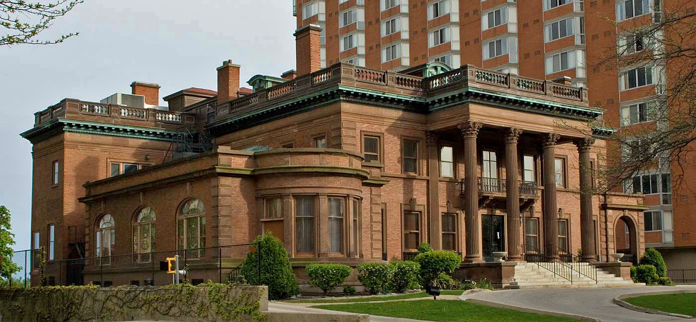 McIntosh-Goodrich Mansion, Milwaukee, Wisconsin. National Registered Historic Place. Currently the Wisconsin Conservatory of Music. CC attribute to Kevin Hansen.